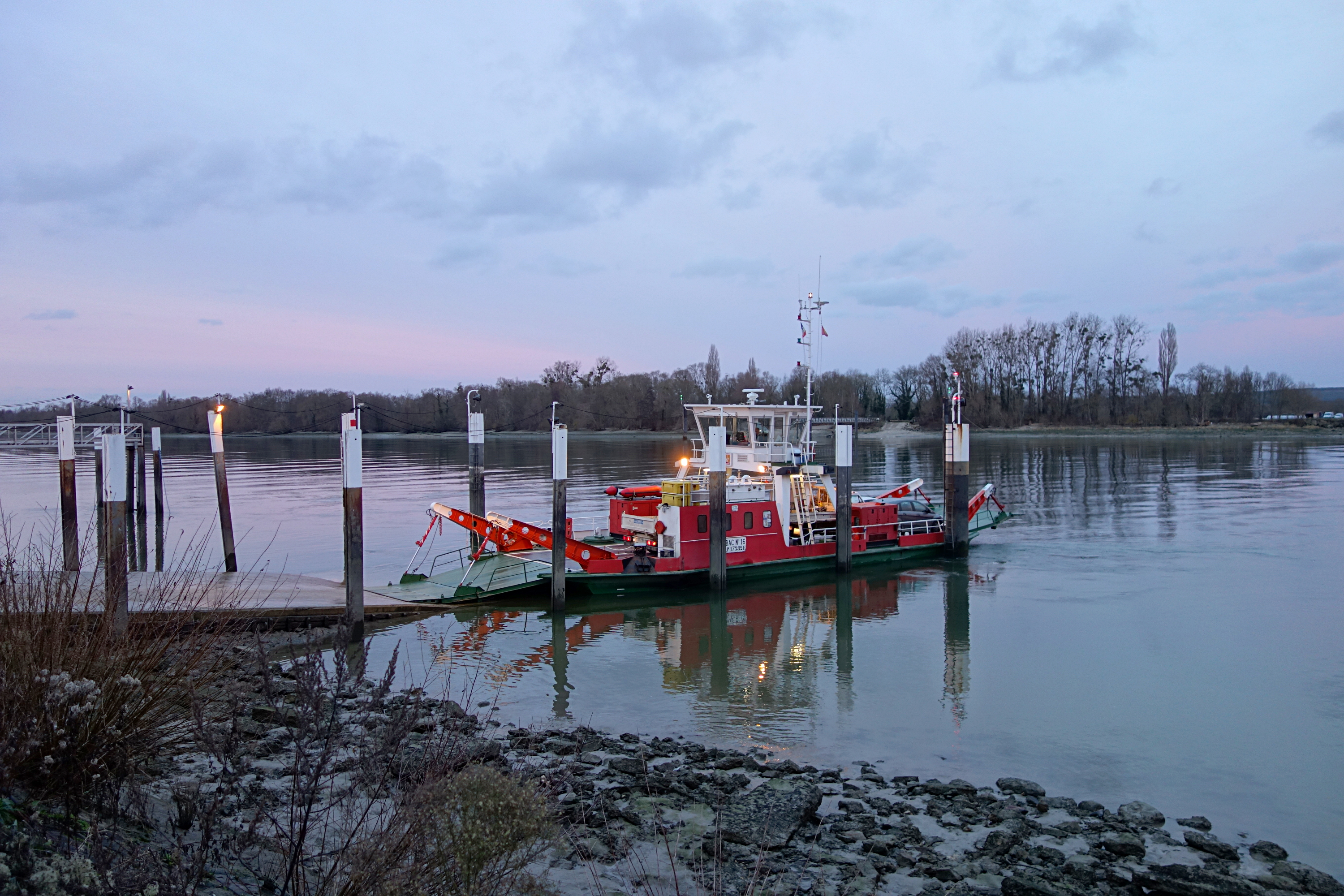 Ferry 16 (MMSI 226006740) Yainville Heurteauville.